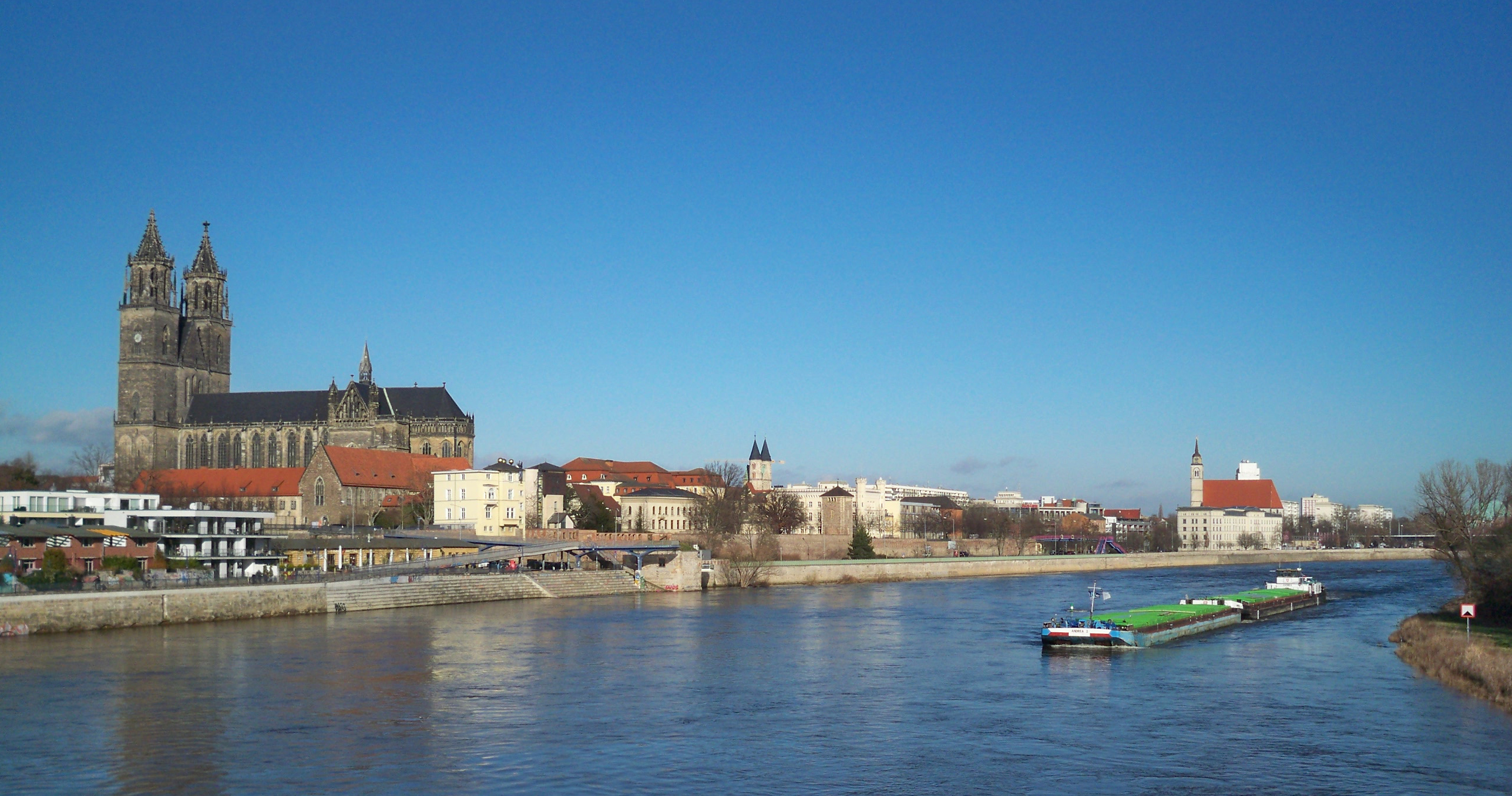 Magdeburg, Saxony-Anhalt, River Elbe, freight ship next to Magdeburg Cathedral and immersed "Domfelsen" ("Cathedral Rock"); the ship has to pass on the Eastern side of the river